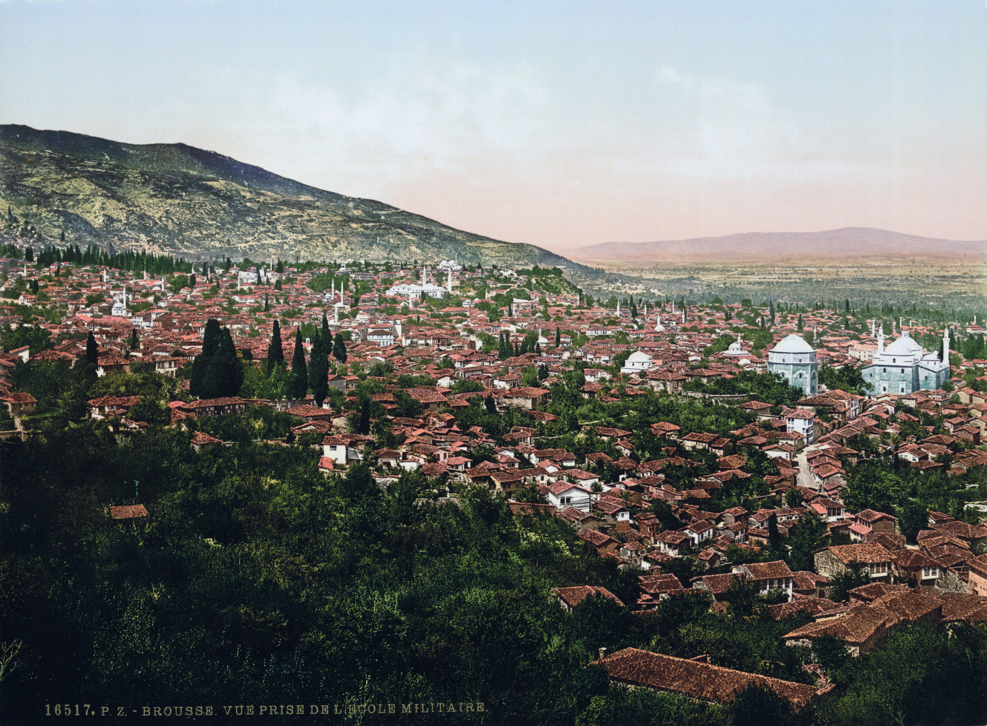 View of the city, Bursa, Turkey Print no. "16517"